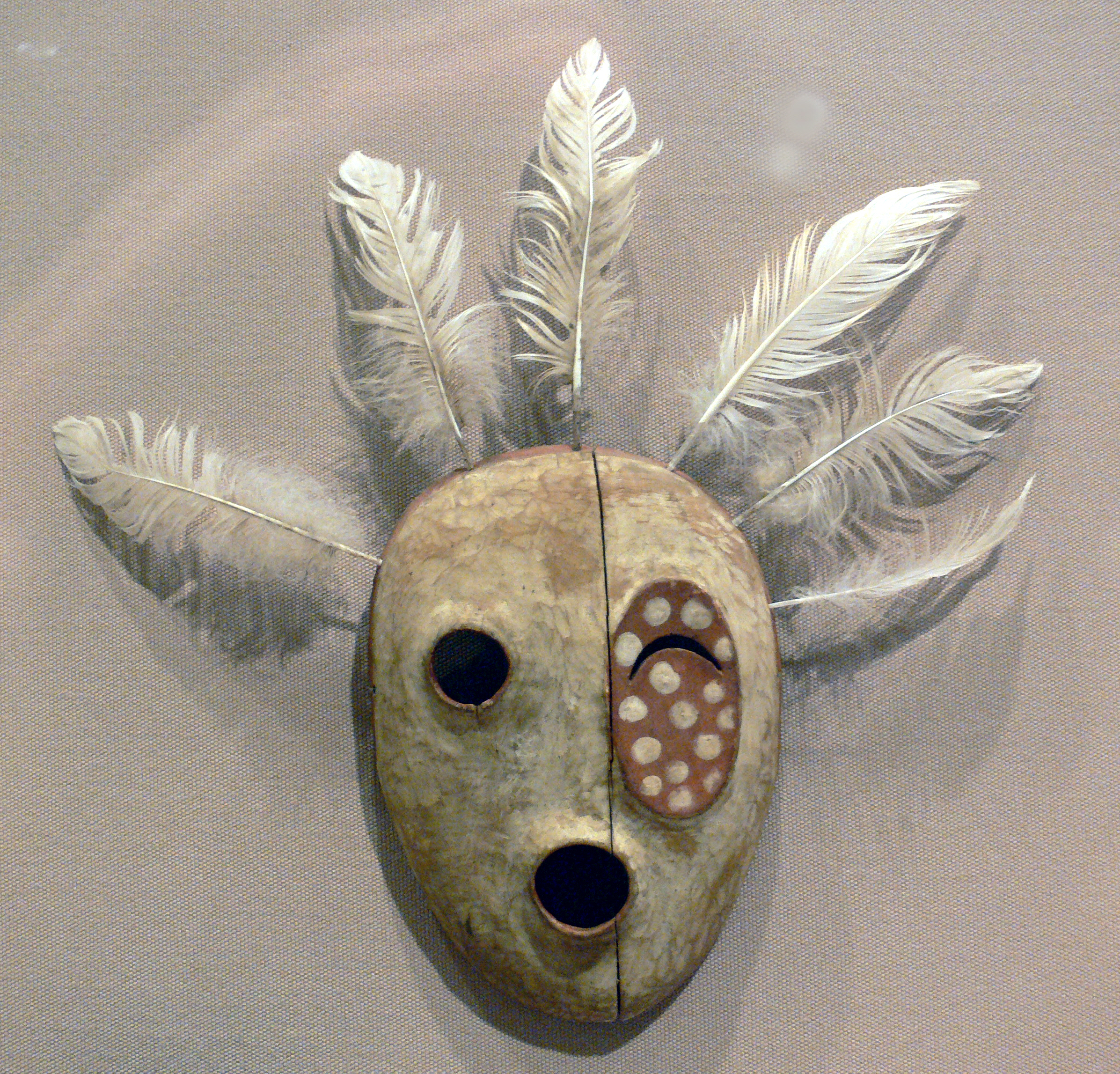 Mask The Bad Spirit of the Mountain, Yupik Eskimo, late 19th century, 21.1 x 14.6 cm; Wood, paint, and feathers; from St. Michael, Alaska Dallas Museum of Art, Dallas, Texas; gift of Elizabeth H. Penn, object number 1982.81